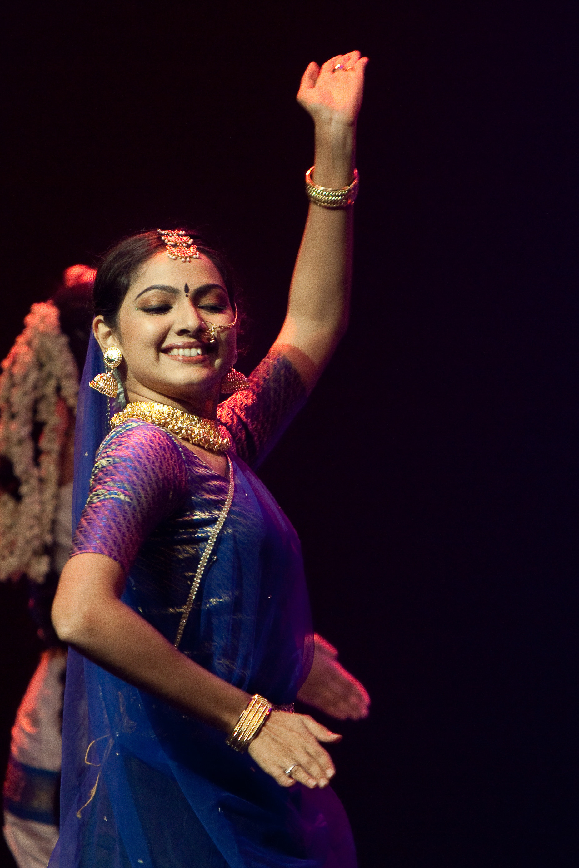 This media file is uploaded with Malayalam loves Wikimedia event - 2.